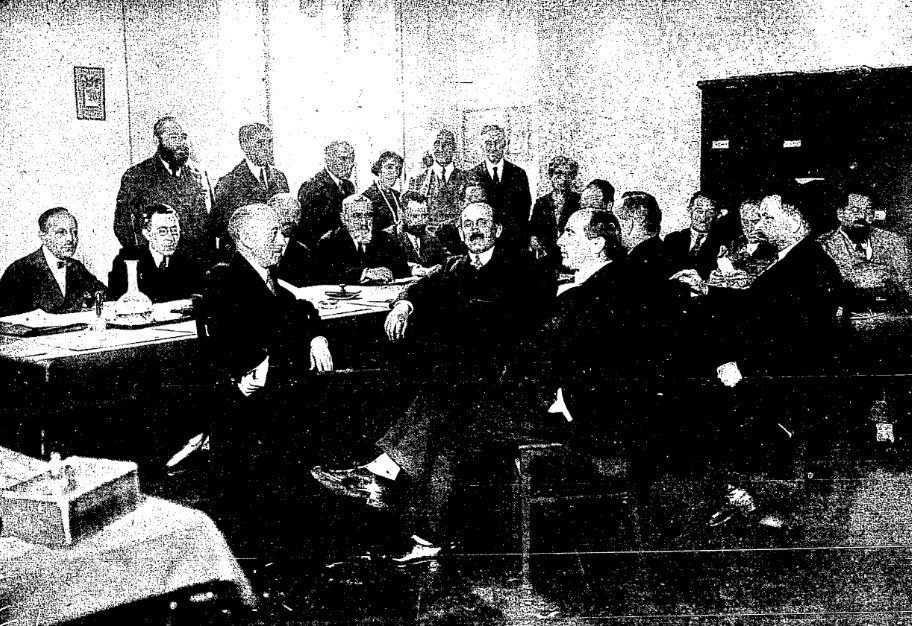 Jewish club in first Polish Sejm (II Republic)